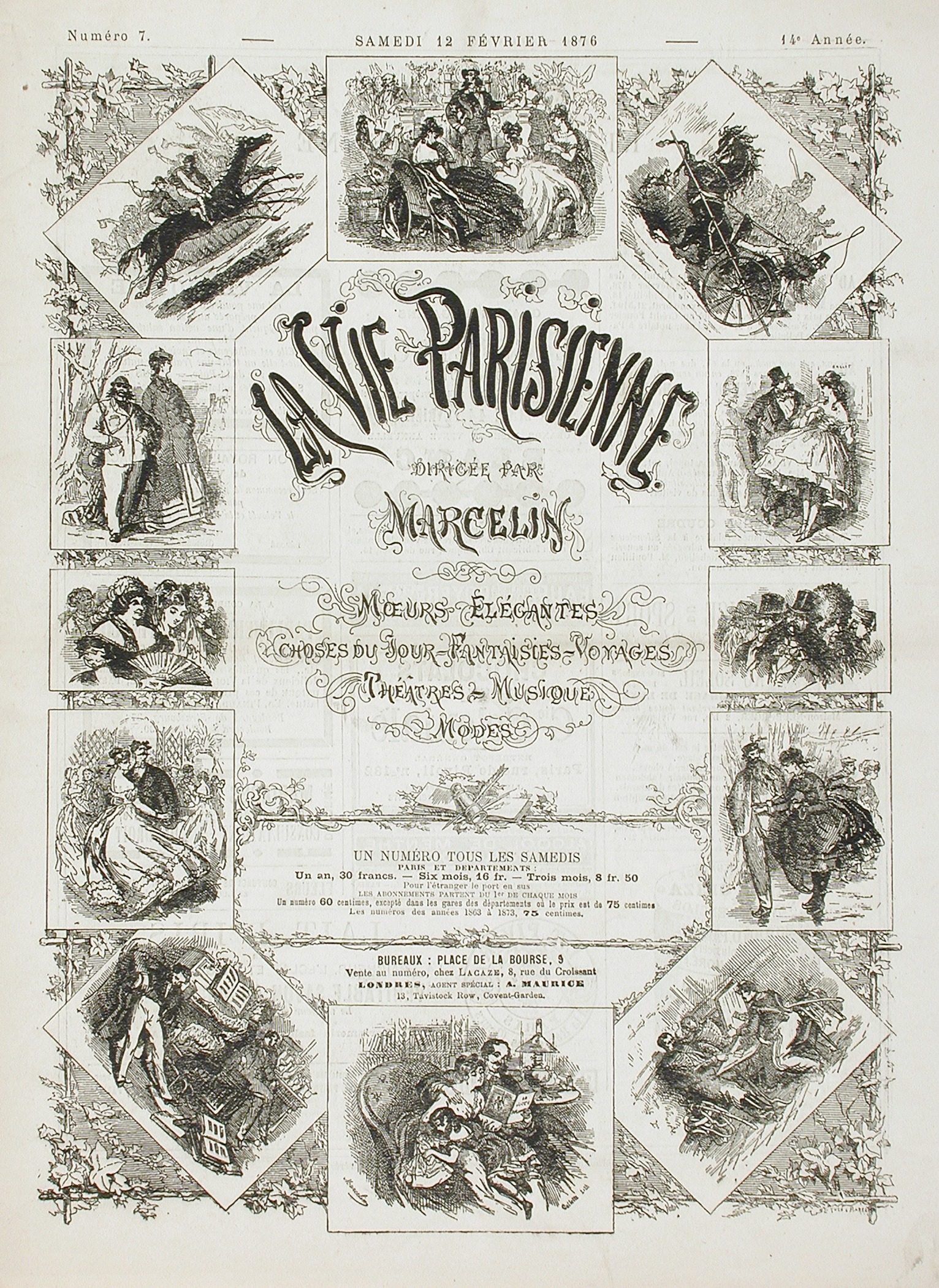 Belgium, 1876 Volume, number, page: No. 7, Sunday 12 February 1876 Prints; engravings Wood engraving Sheet: 13 11/16 x 10 11/16 in. (34.77 x 27.15 cm) each Gift of Michael G. Wilson (M.84.243.262a-h) Prints and Drawings